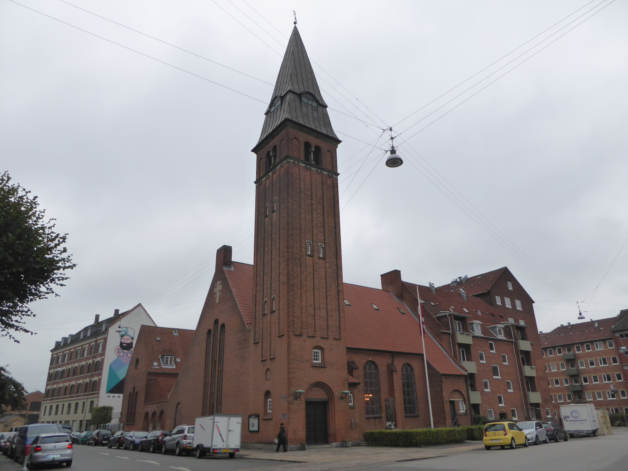 The church Kingos Kirke at the corner of Bragesgade and Nannasgade in Nørrebro in Copenhagen.